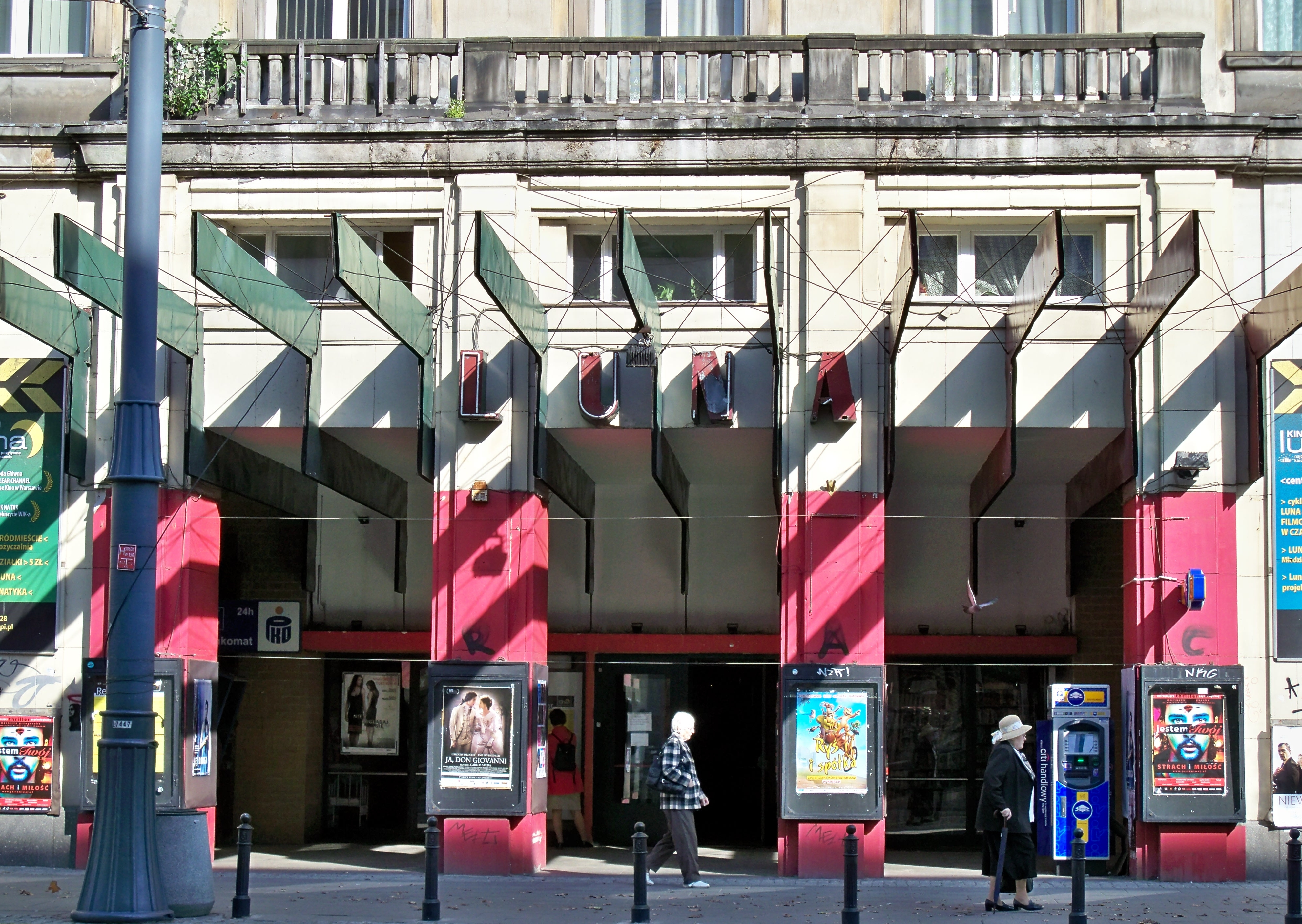 Luna Cinema in Warsaw, Poland.